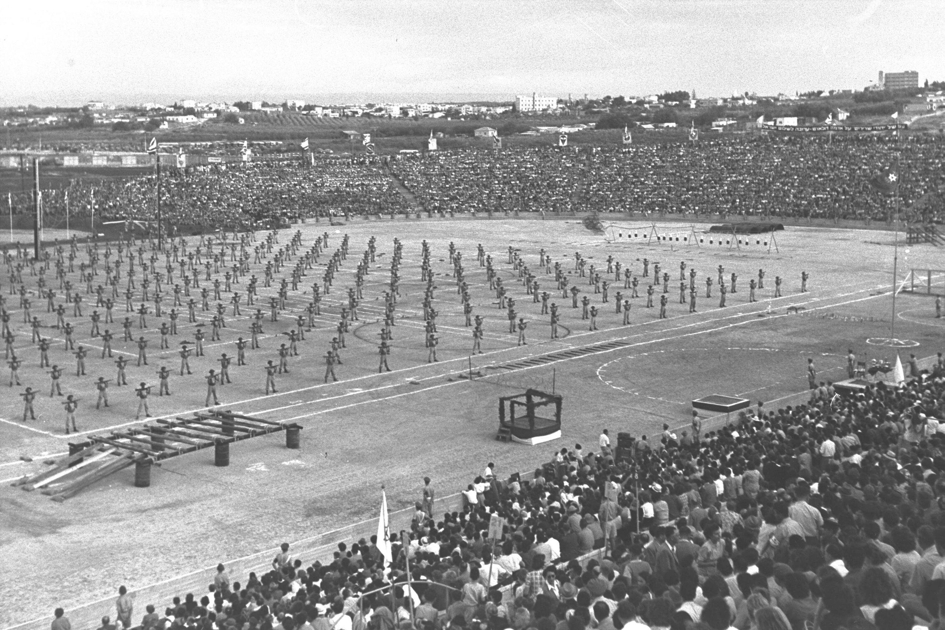 THE IDF TAKING PART IN THE CLOSING CEREMONY OF THE "MACCABIA GAMES", HELD AT THE RAMAT GAN STADIUM.